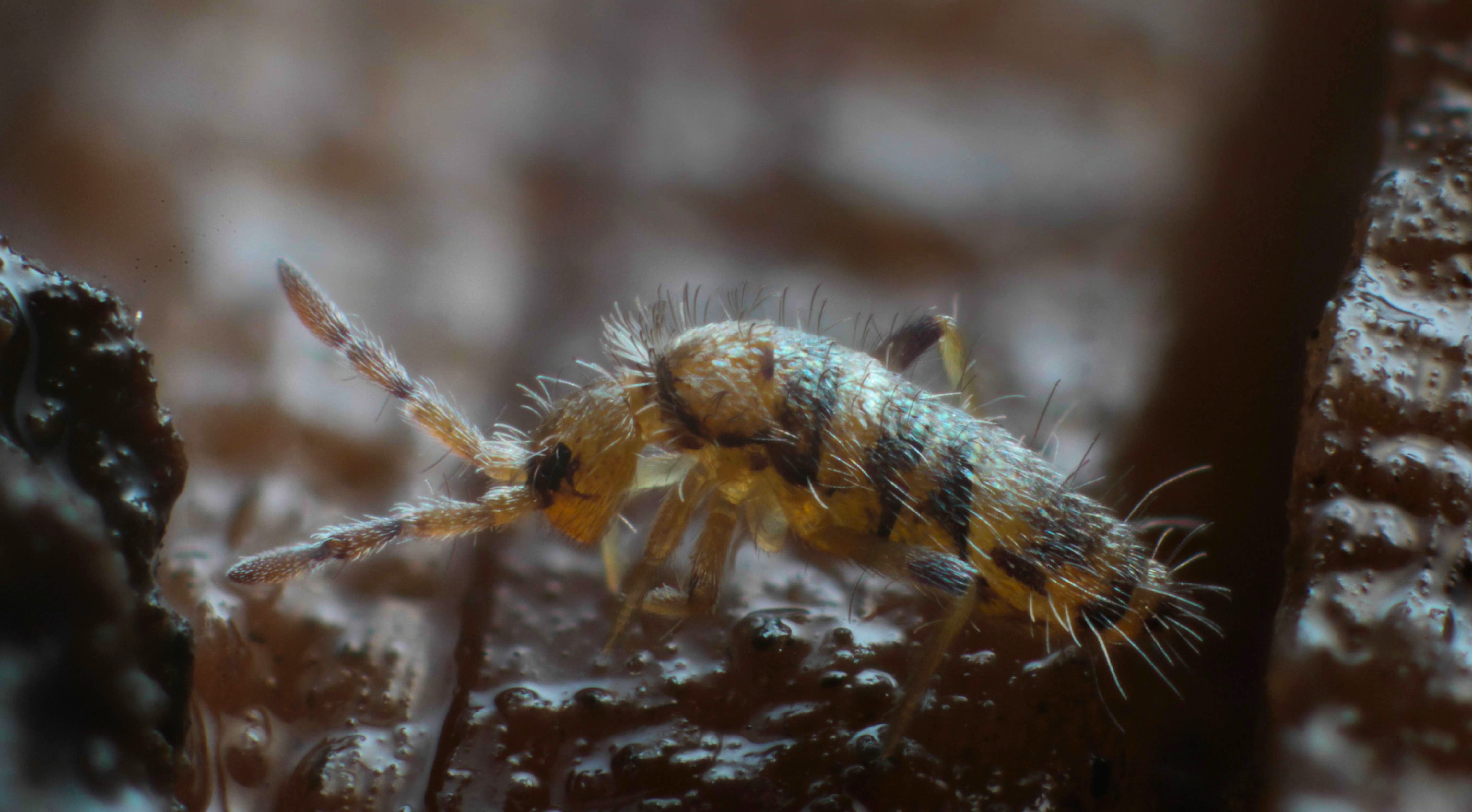 Willowsia platani Original description on Flickr: Another new one for me- I'd thought it was some sort of weird E. multifasciata until I checked and read that a defining difference between Entomobrya species and Willowsia is that Willowsia species have scales while Entomobrya species do not. So W. platani it is, a reasonably common springtail and very tolerant of dry conditions. Though it was probably enjoying the wet log I found it on. I include a close up of the scales in the comments. They're very distinctly 'leaf' shaped...